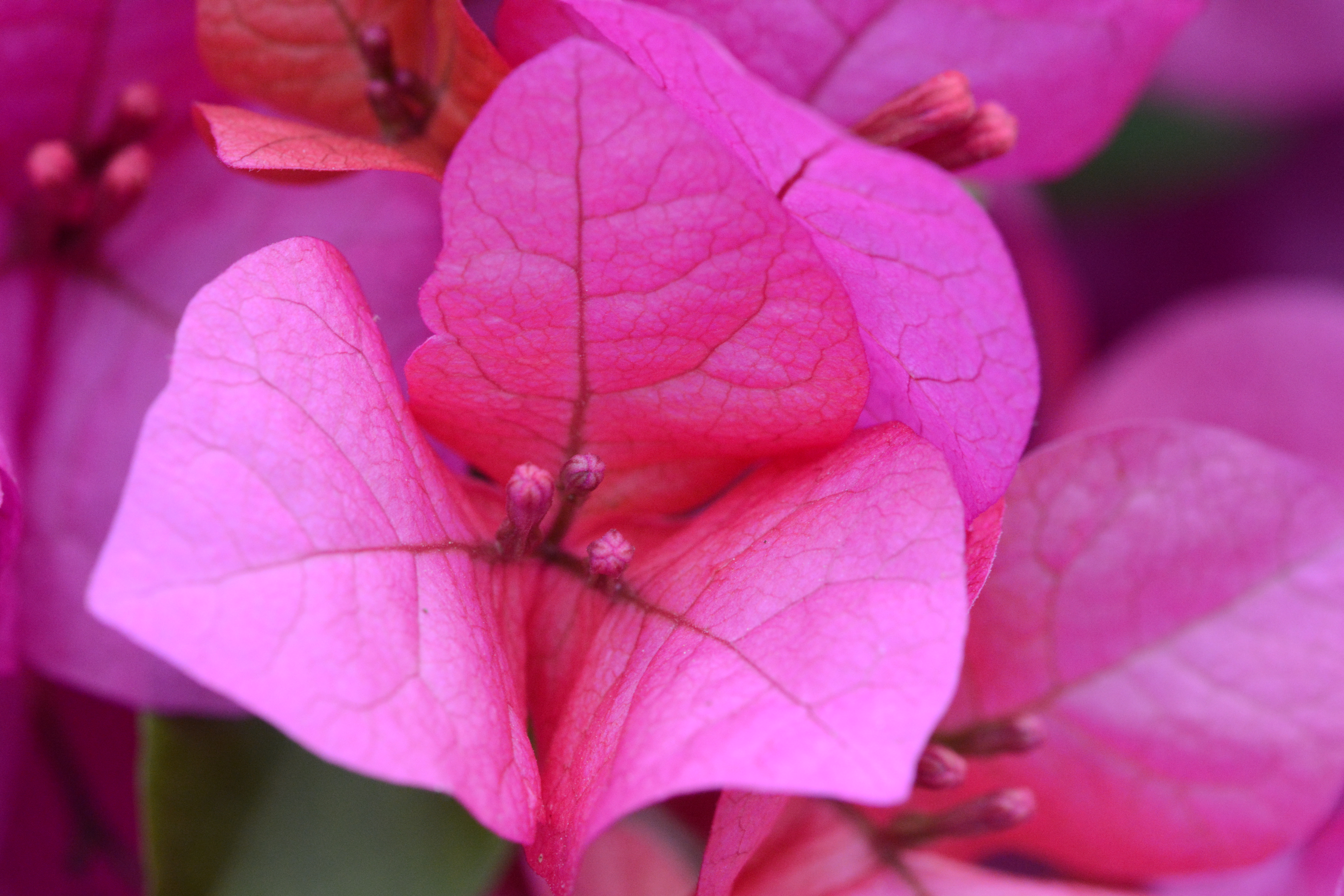 Bougainvillea